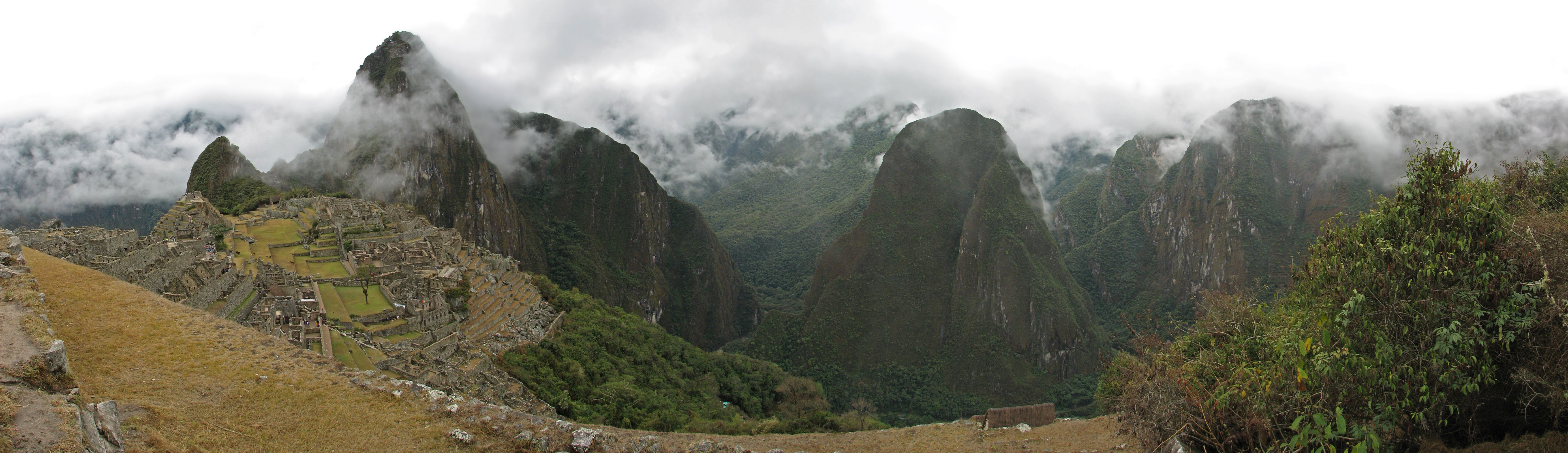 Panoramic Image of Machu Picchu and the Sacred Valley